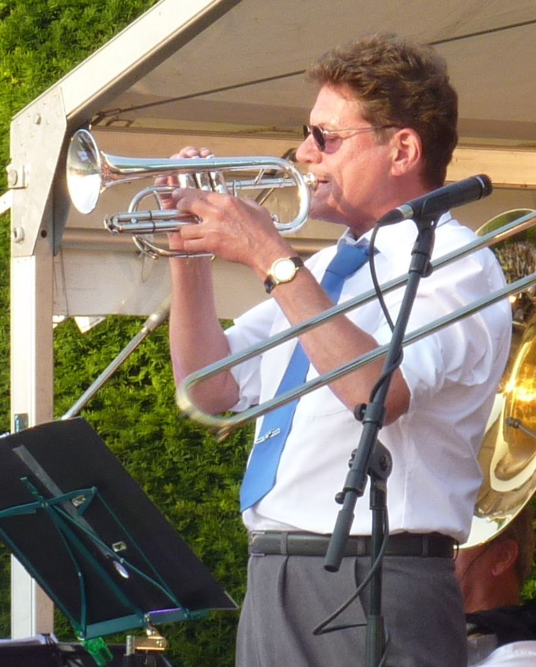 Andy Lawrence in Aktion